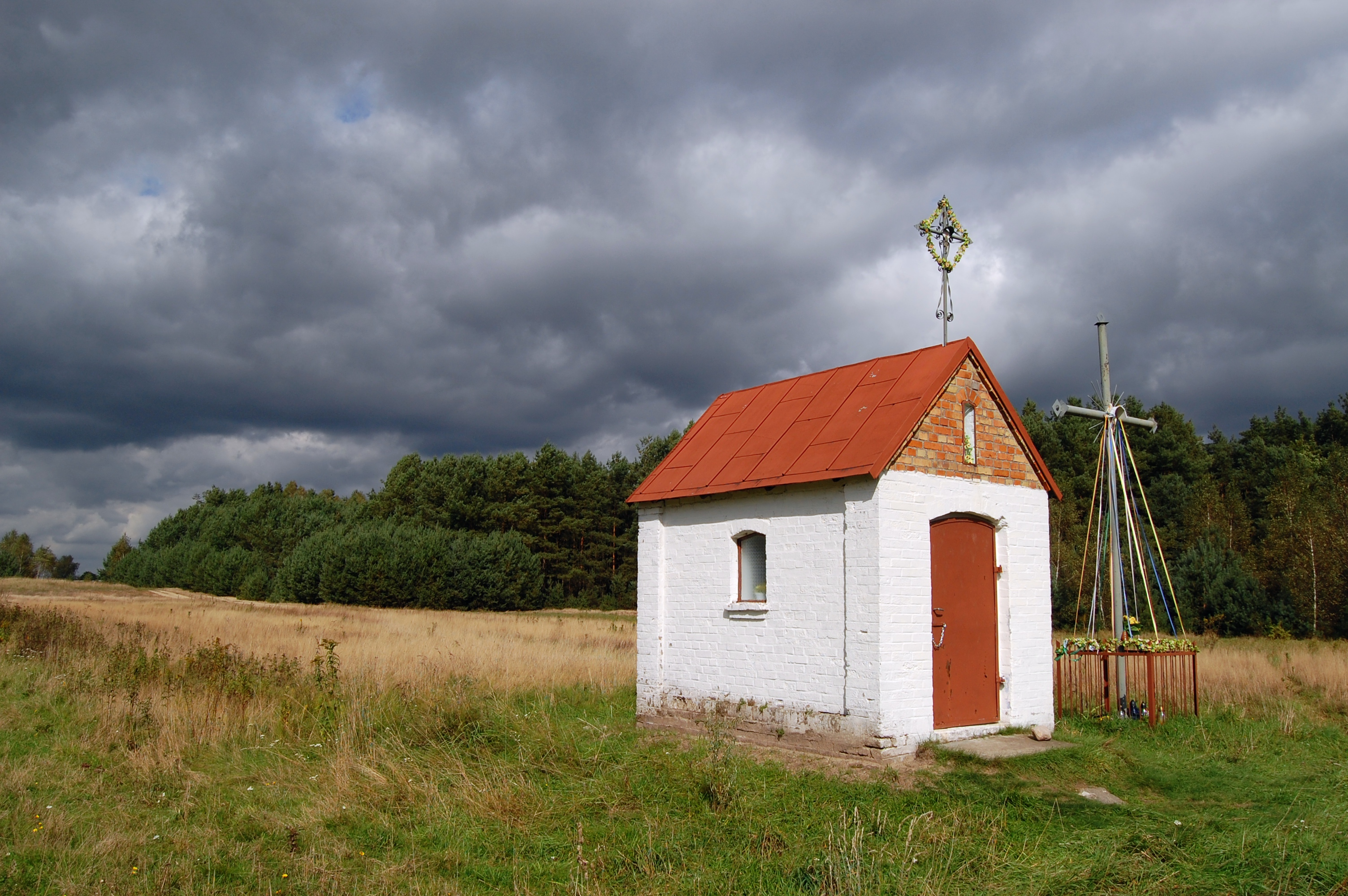 Chapel in Głupianka, Masovian Voivodeship, Poland. This chapel was build in 20th century after a pagan worshiping stone, standing here previously, was destroyed in 1906.